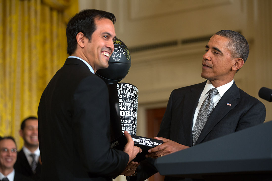 Miami Heat Coach Erik Spoelstra presents President Barack Obama with a team trophy to honor the 2013 NBA Champion Miami Heat on winning their second-straight Championship title, in the East Room of the White House, Jan. 14, 2014.